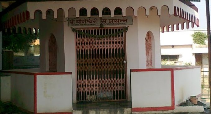 yogeshwari_temple_jalna built by GD Agnihotri